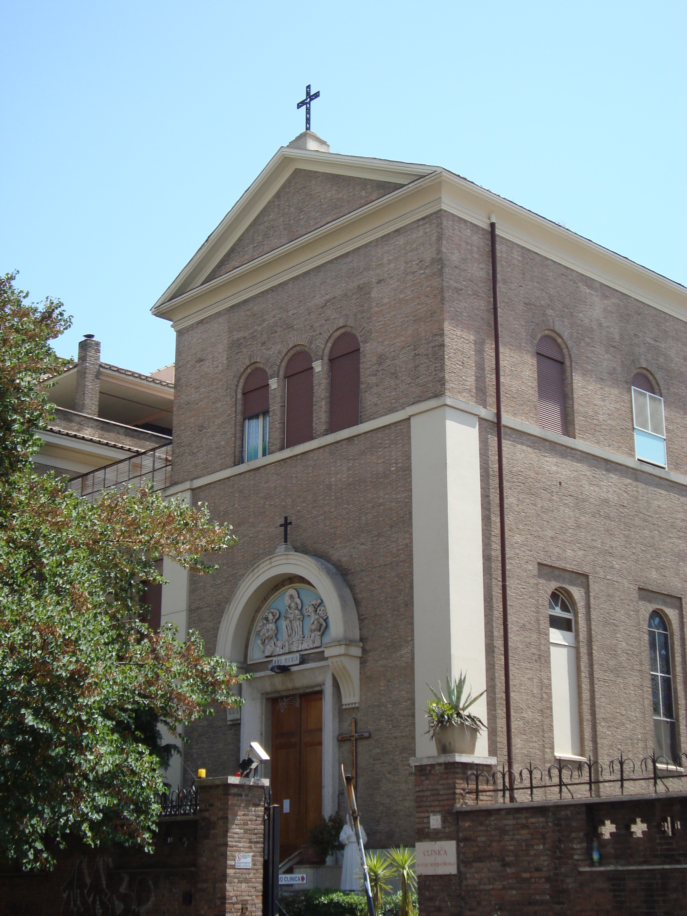 Church Santa Caterina da Siena at the via Latina in Rome